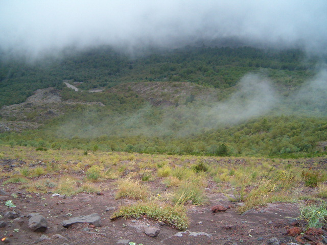 Atrio del Cavallo